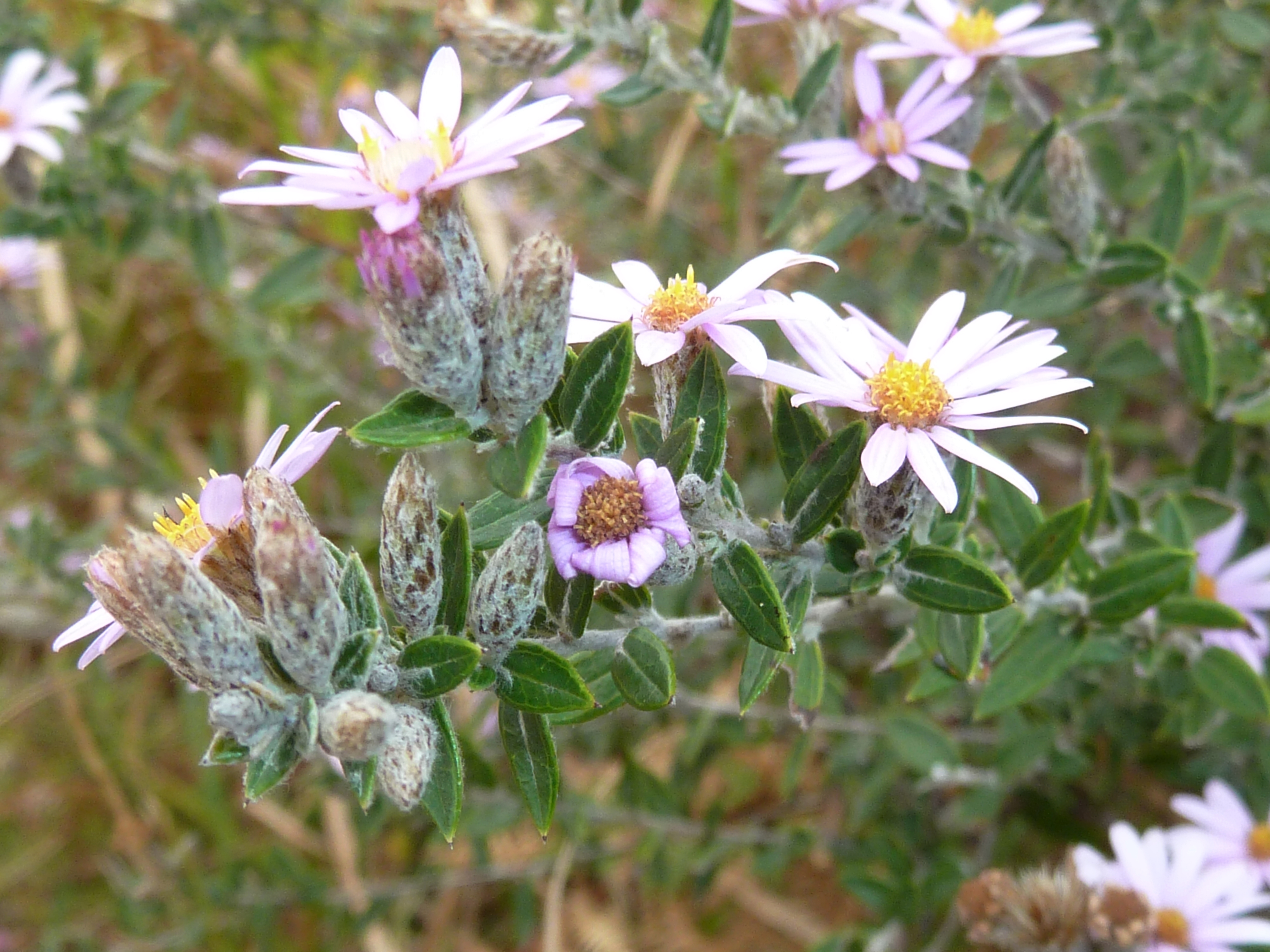 Bushman's tea growing in sourveld of Krantzkloof Nature Reserve, KwaZulu-Natal